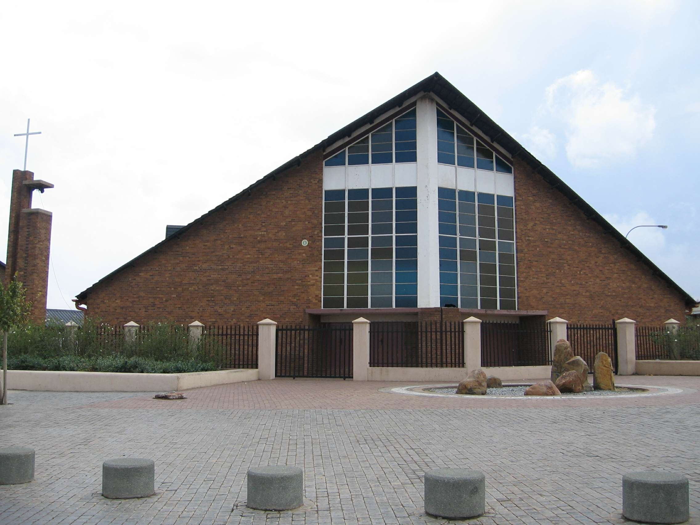 The "Regina Mundi" catholic church in Soweto, Johannesburg. Used to be a place of gathering in the era of anti-apartheid fights.